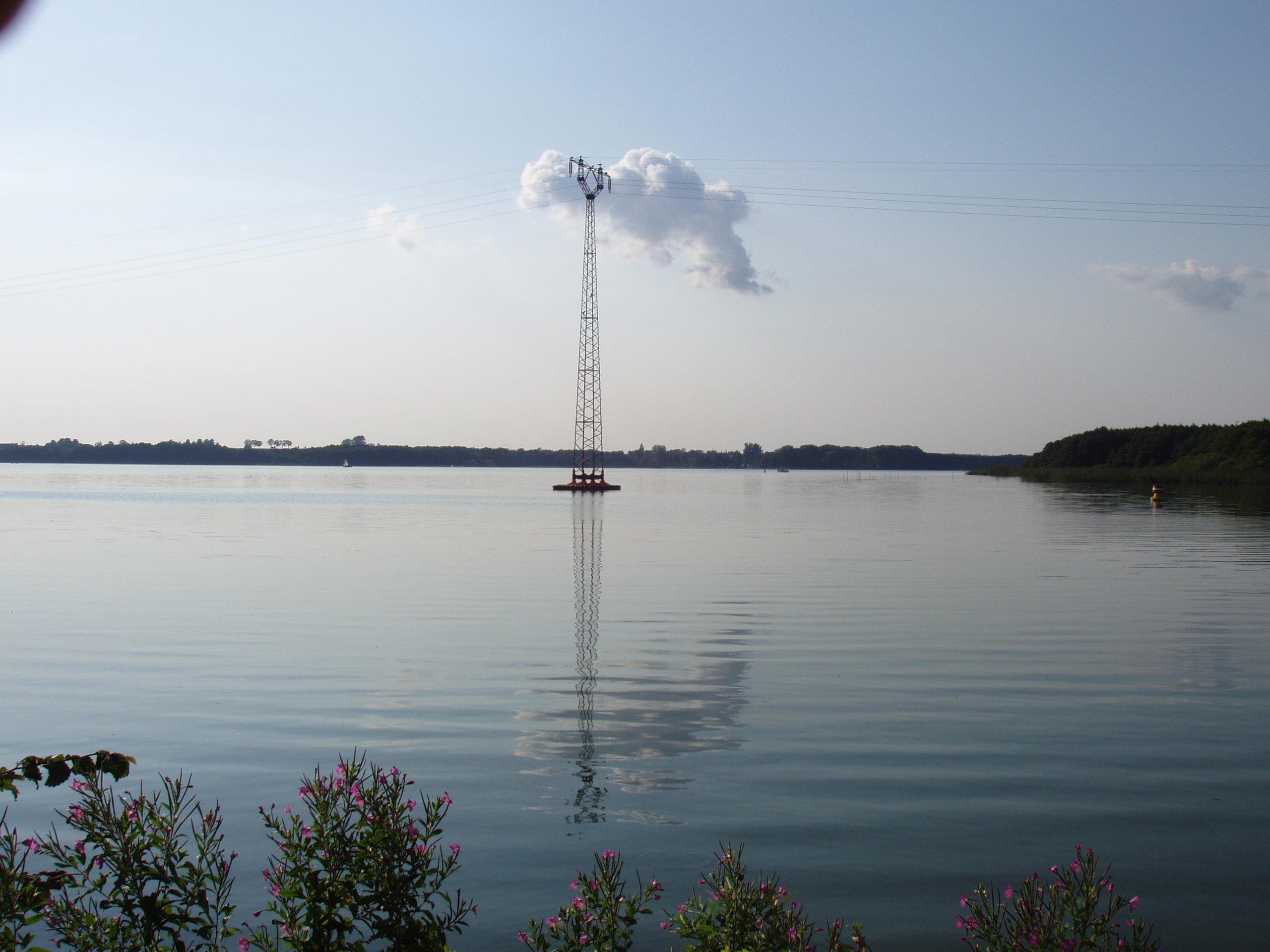 Lake "Schweriner See", south end of northern part (Außensee), view from "Paulsdamm", 2 of 3